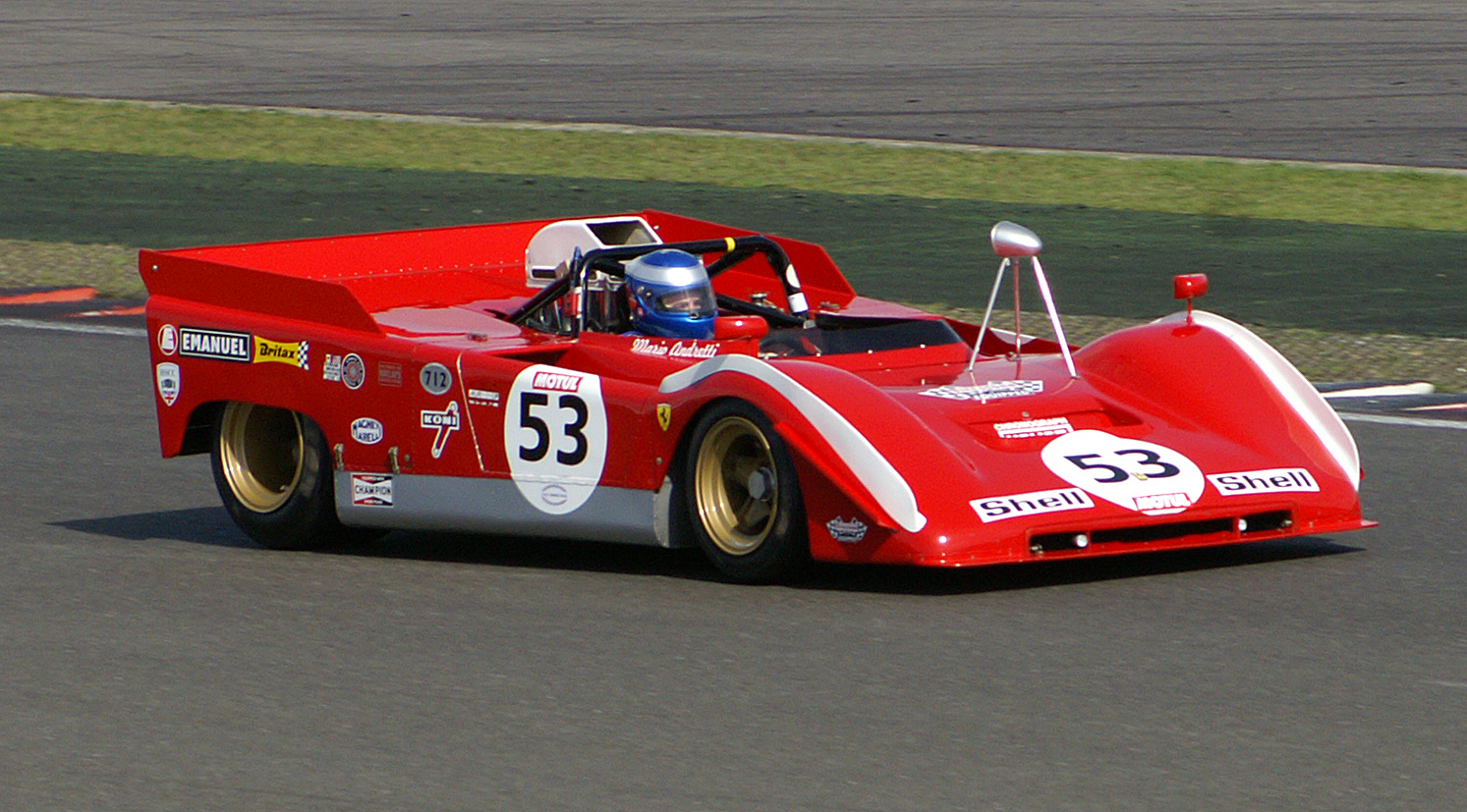 A 1971 Ferrari 712 Can Am at Silverstone, once driven by Mario Andretti.